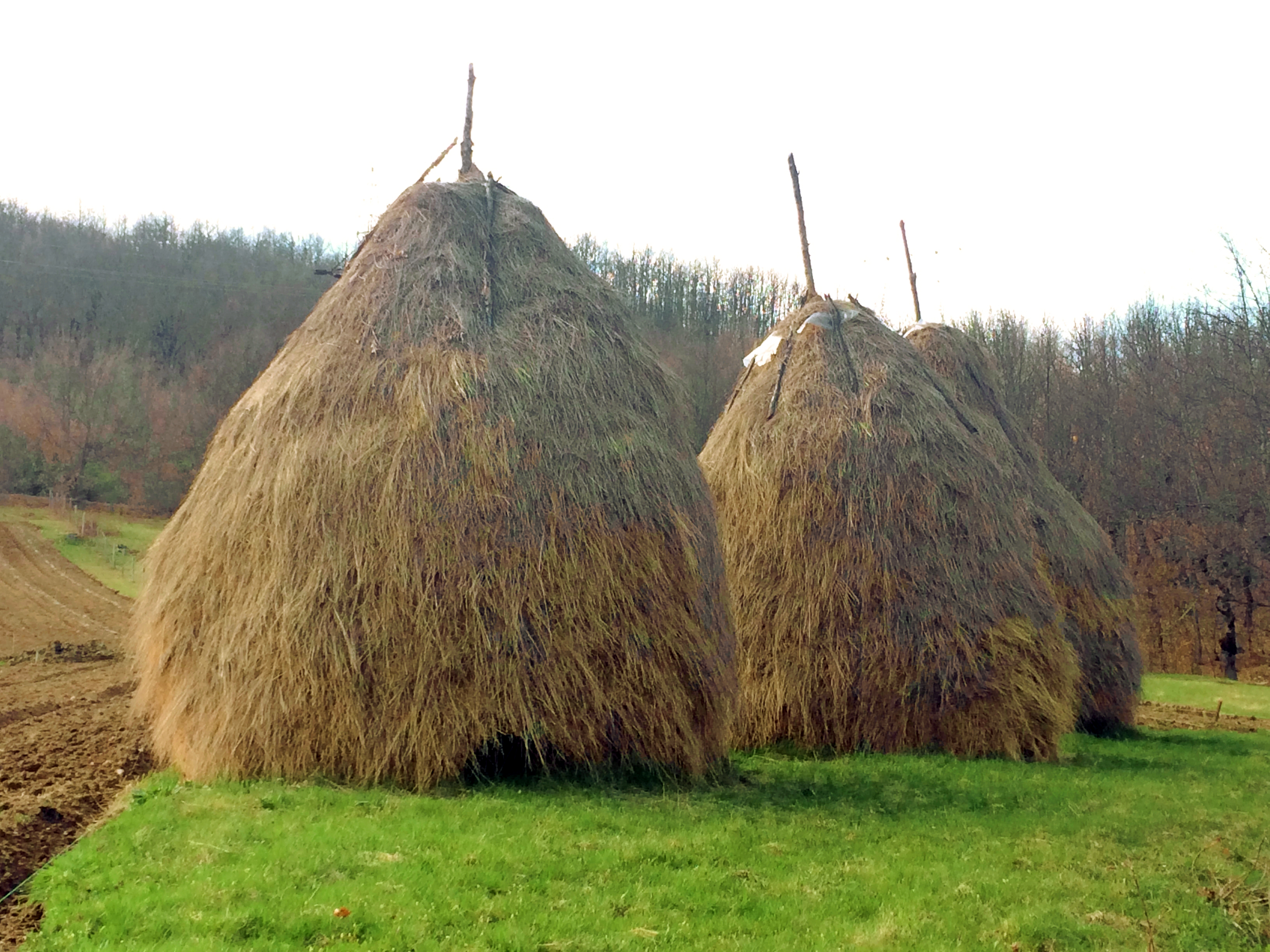 Image from the village of Kalafati, where the Potpec Reservoar is located on the River Lim. Municipality of Priboj, Serbia